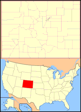 Locator Map of Colorado, United States